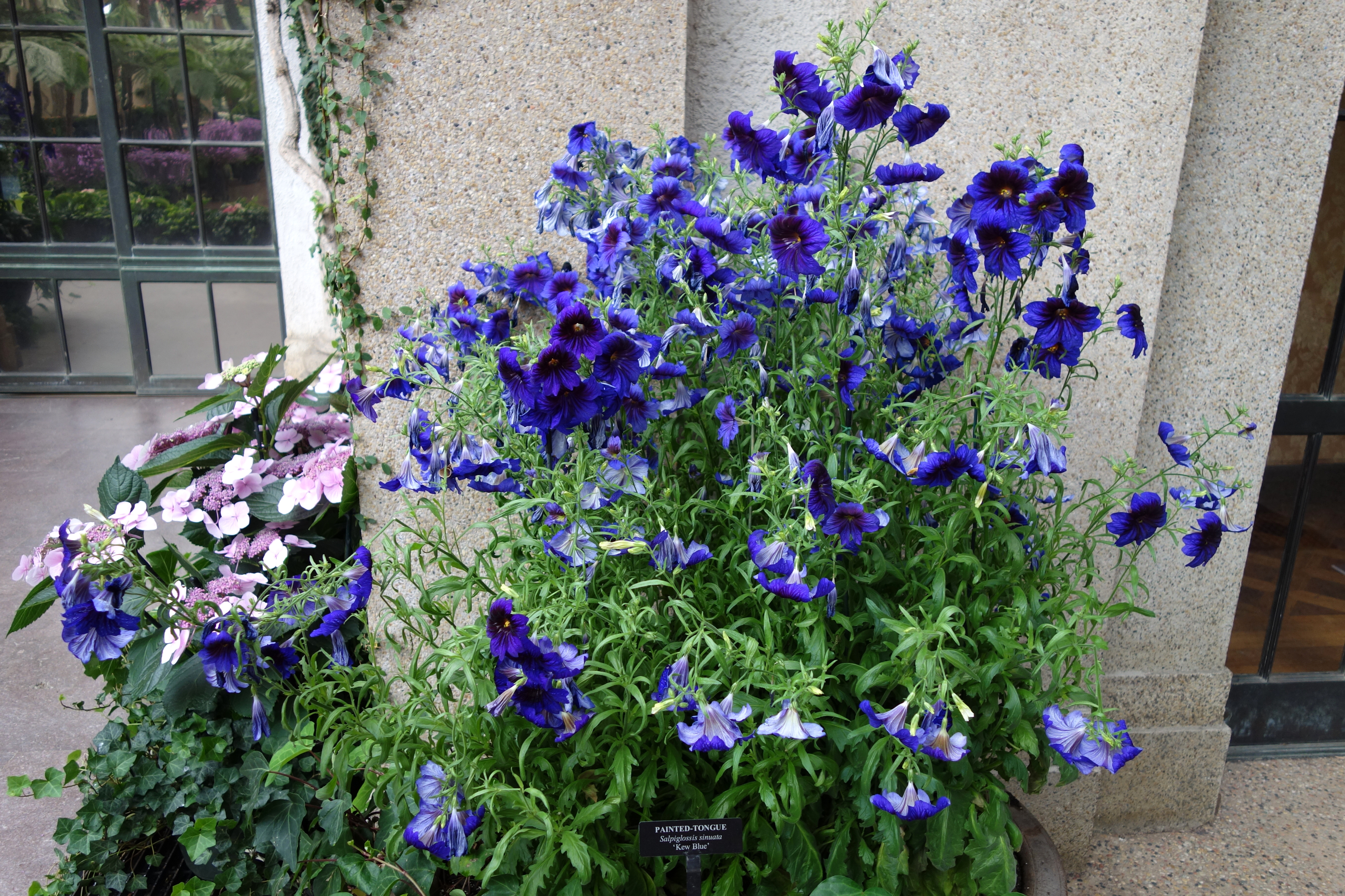 Exhibit in Longwood Gardens, 1001 Longwood Rd, Kennett Square, Pennsylvania, USA.